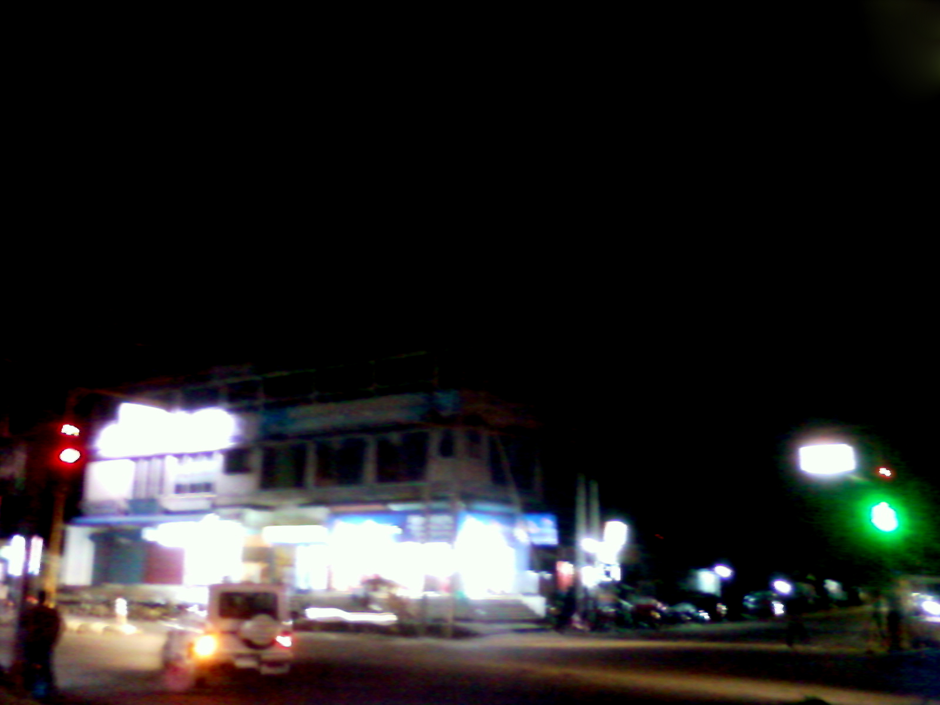 Bhetapara, an locality in Gauhati, India.